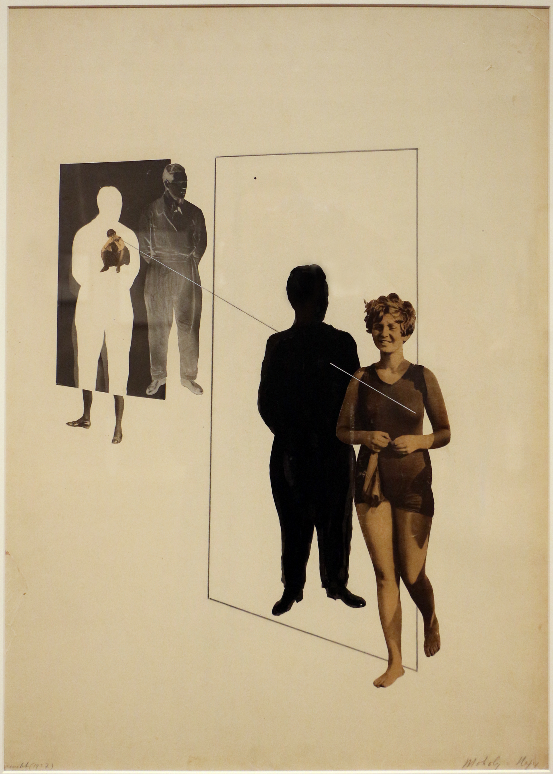 Moholy-Nagy: Future Present (2016 exhibition)